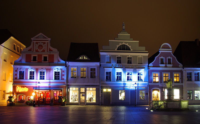 The Altmarkt in Cottbus illuminated in blue during the Cottbuser Filmfestival